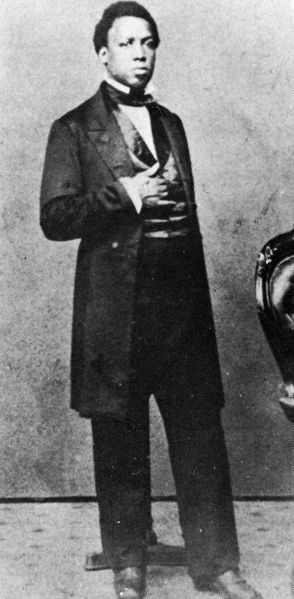 This image is available on The Florida Memory Project website (en: ). It is a digitally scanned image of an original photography kept in the Florida State Archives. You may find the exact link to the details regarding this picture here: This picture was taken in the 19th century and is over one hundred years old. If anyone holds the copyright, it would be the Florida State Archives in Tallahassee, Florida who maintain